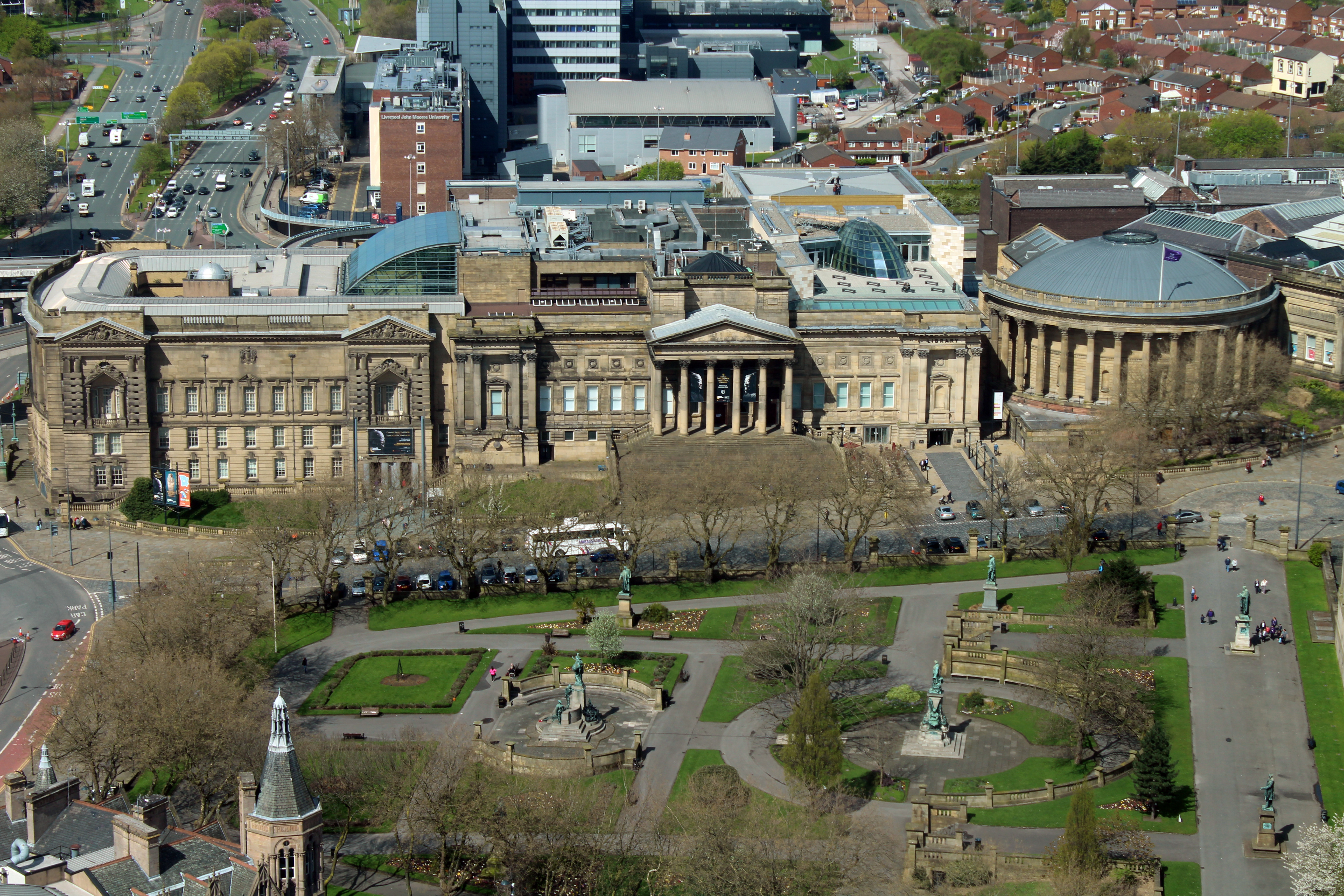 View north from St John's Beacon. St John's Gardens in the foreground. Behind, William Brown Street with (l to r) former Technical College, World Museum, Central Library and Picton Reading Room.